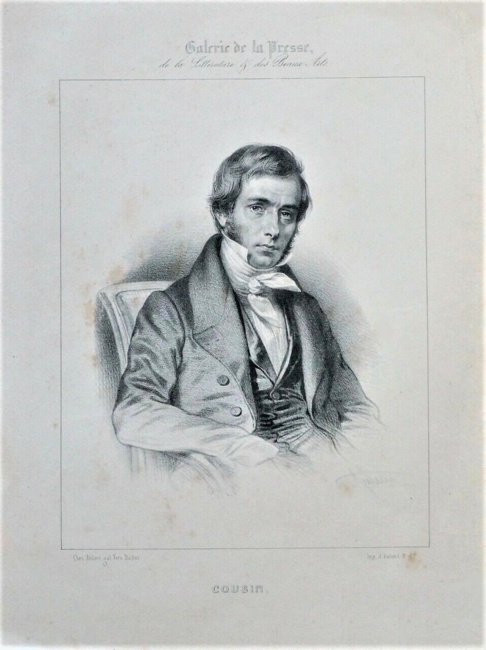 Portrait of Victor Cousin (1792-1867), French philosopher